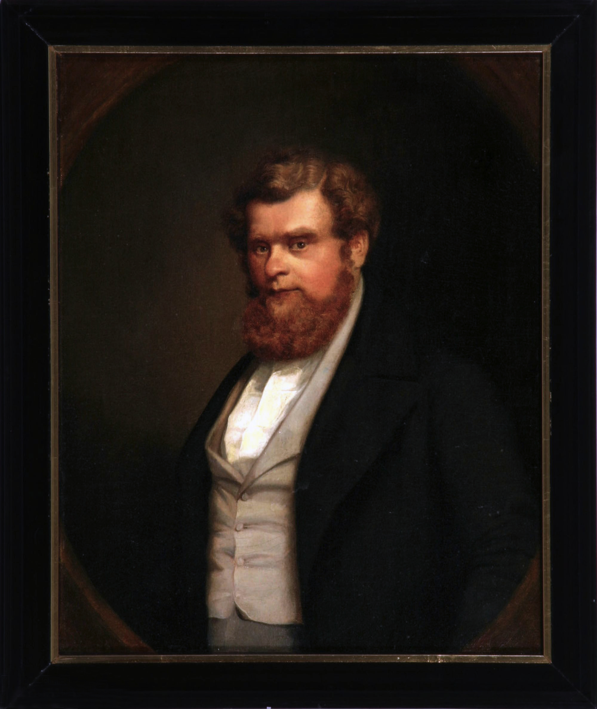 Portrait of Robert Blum, a democrat in the German Revolution.